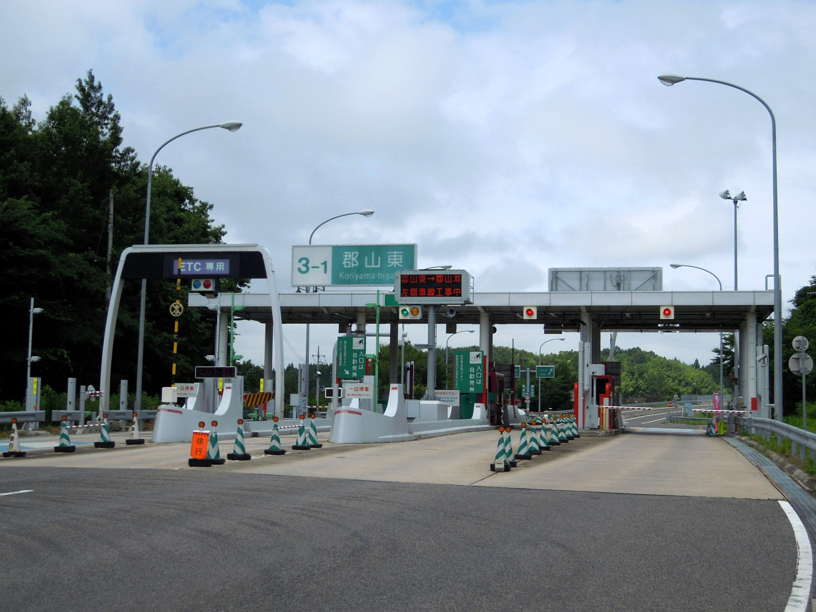 This Interchange, Koriyama-higashi Interchange, is on Ban-etsu Expressway, in Koriyama City, Fukushima Prefecture, Japan.